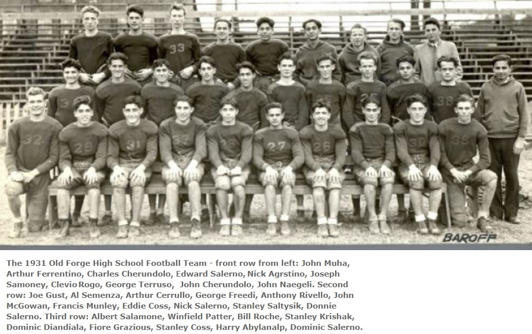 1931 Old Forge High Football team